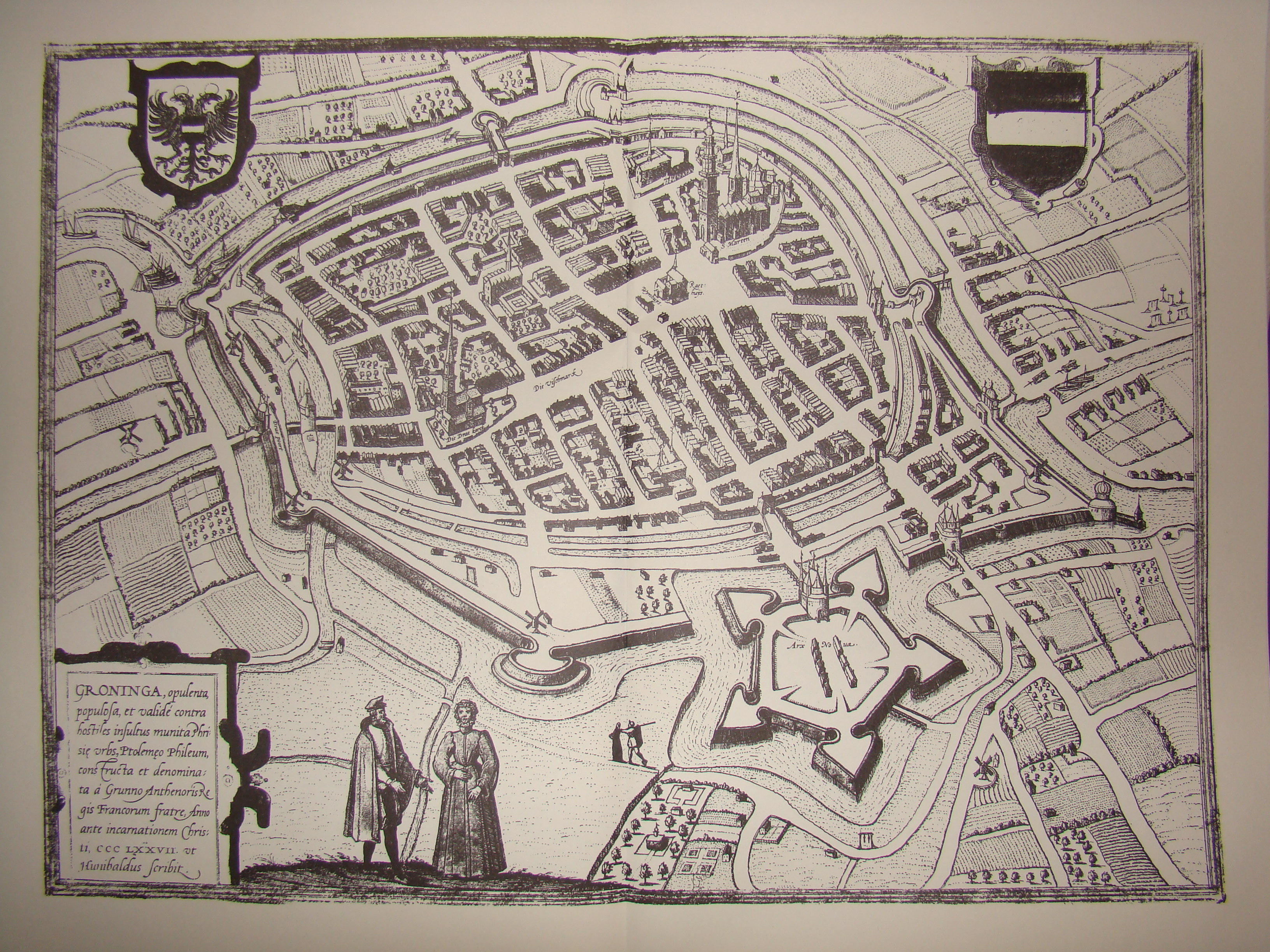 Cityplan of Groningen City (Netherlands) before 1572